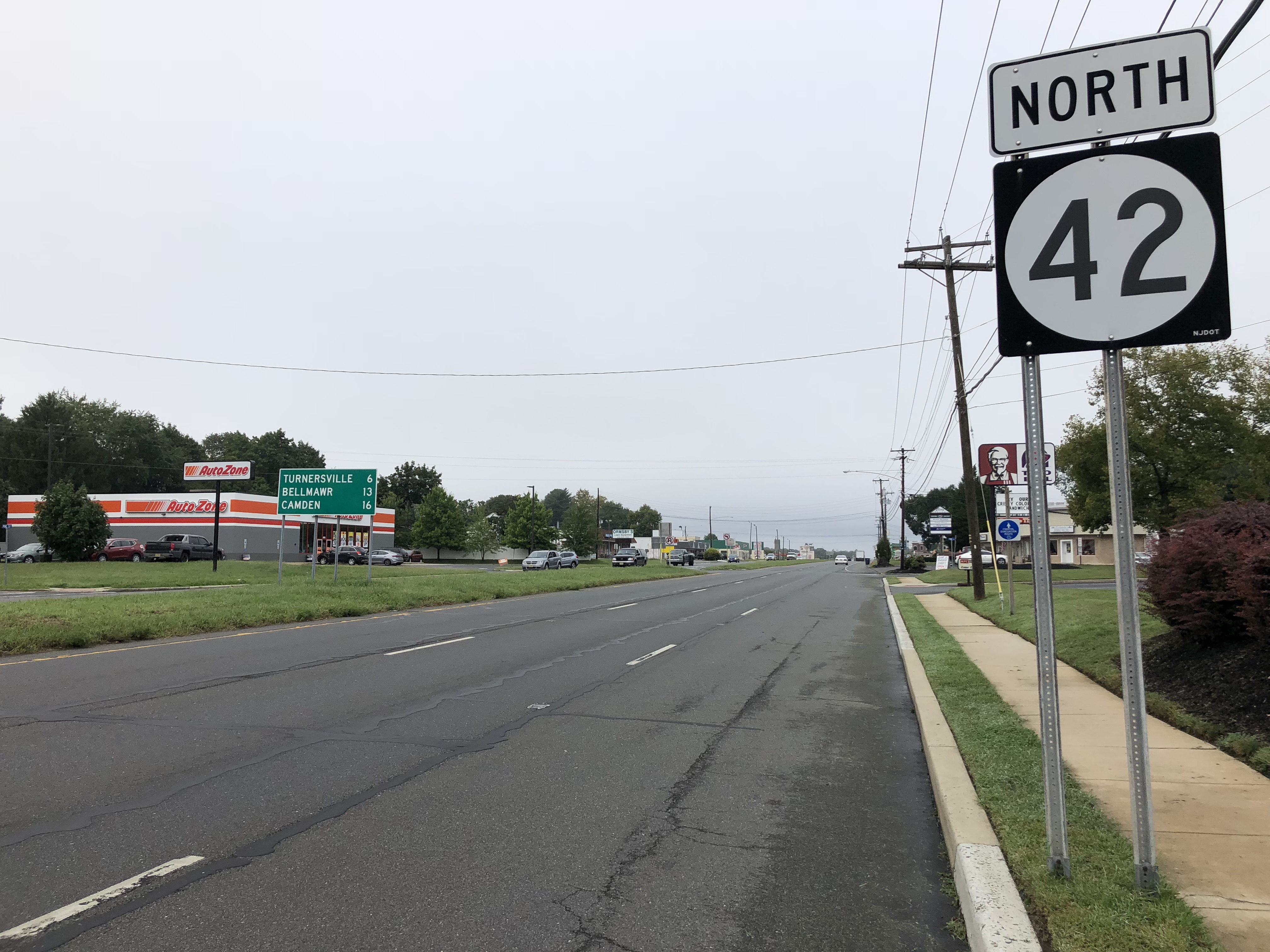 View north along New Jersey State Route 42 (Black Horse Pike) just north of Broad Street in Monroe Township, Gloucester County, New Jersey